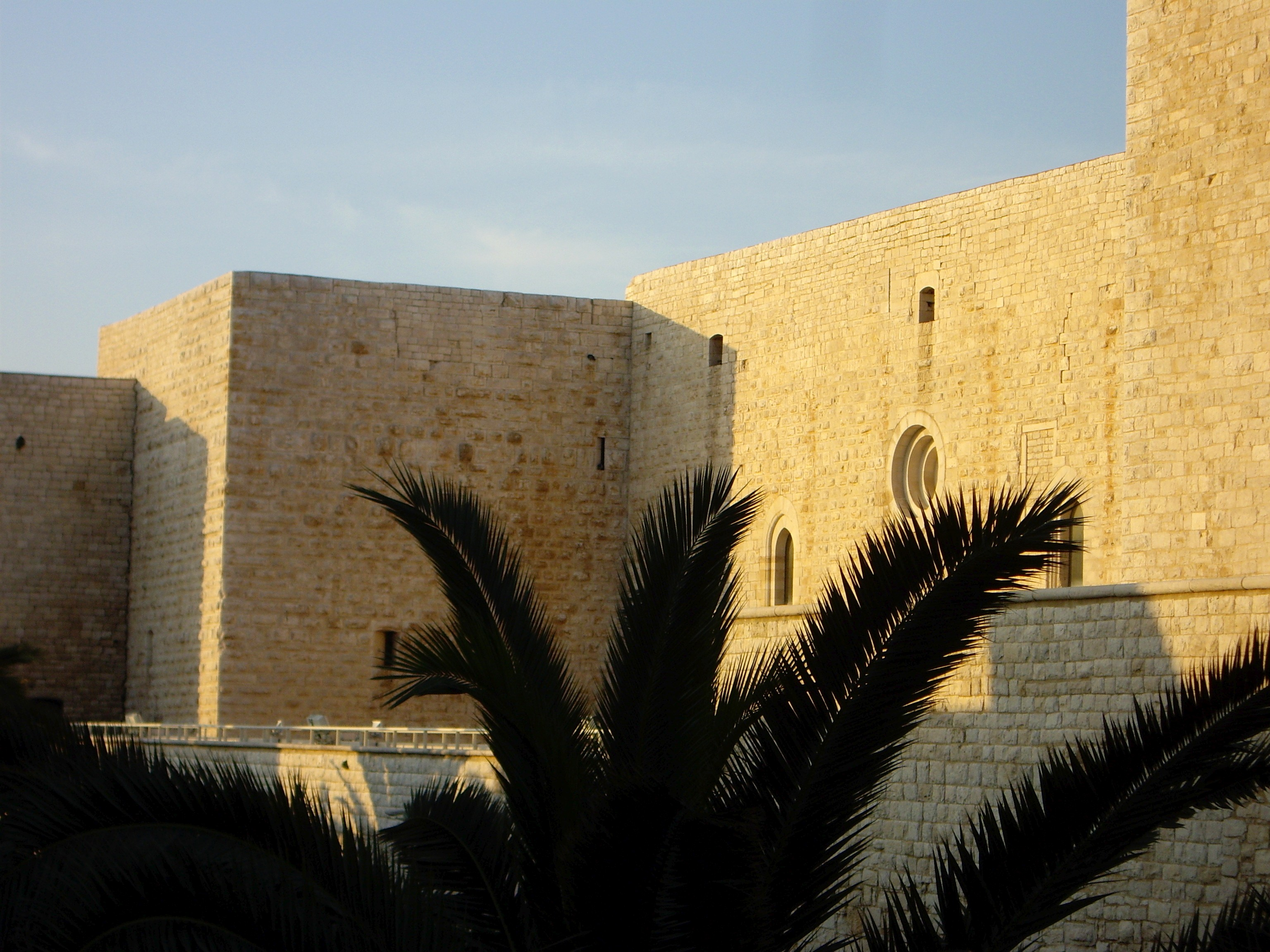 Castle of Trani, south side.